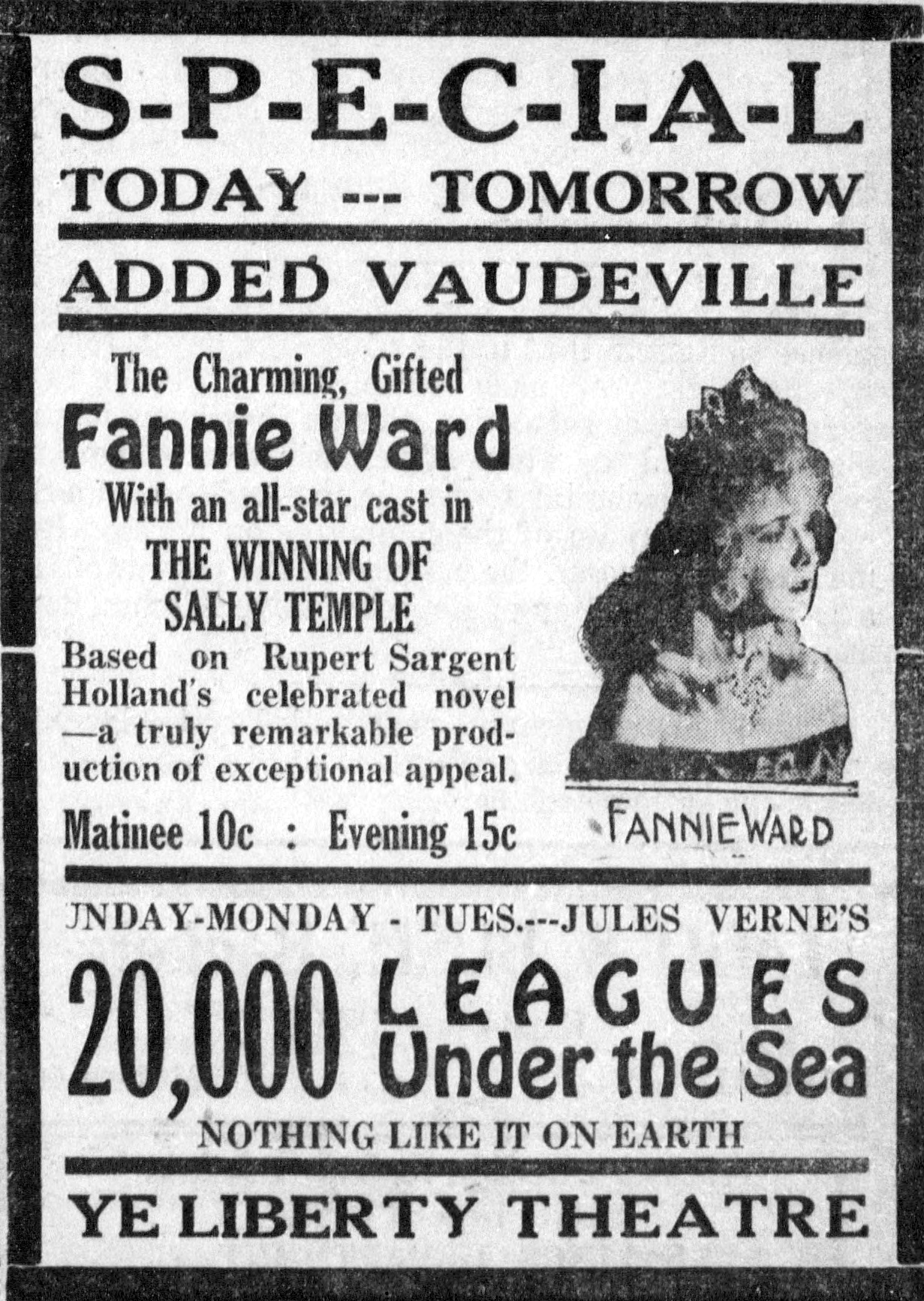 The Winning of Sally Temple is a 1917 American drama silent film directed by George Melford and written by Rupert Sargent Holland and Harvey F. Thew. This is a newspaper advert.